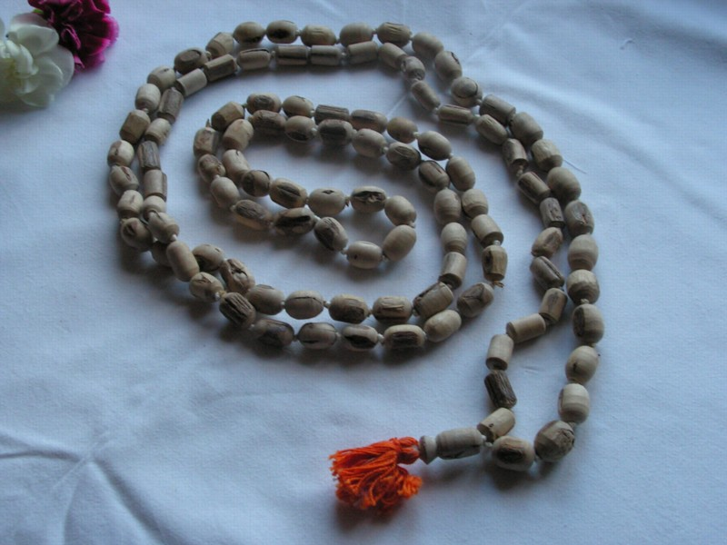 A Japa mala, or set of prayer beads, made from Tulasi wood. There are a total of 108 beads, including the head bead.